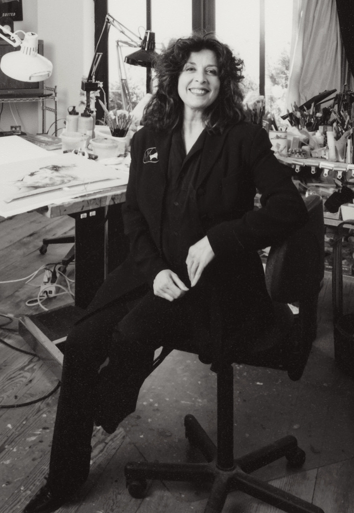 Photograph by Greg Preston of artist Olivia De Berardinis in her studio in Malibu, CA